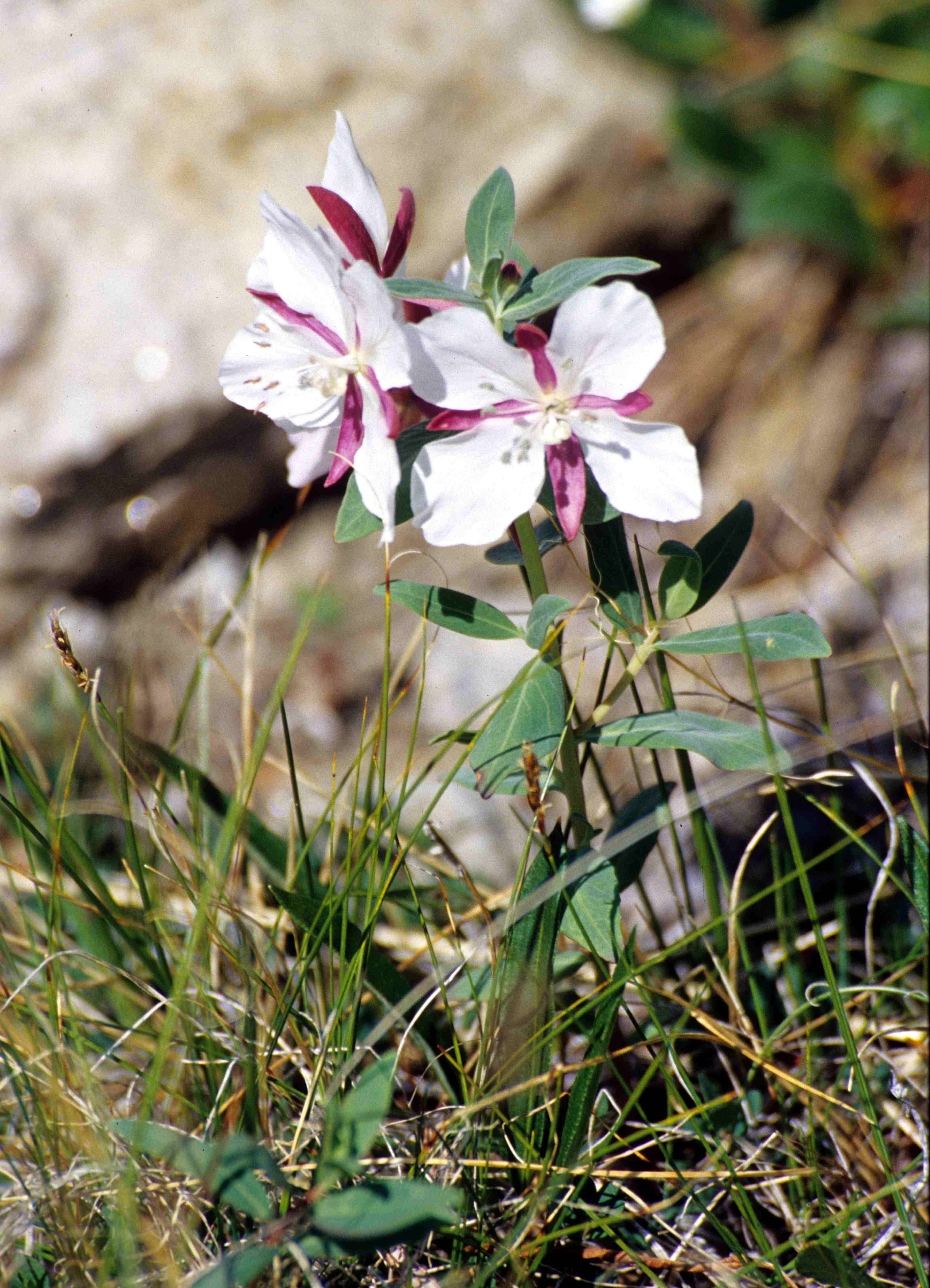 Auyuittuq National Park: White floured Dwarf Fireweed (Epilobium latifolium subsp. album)